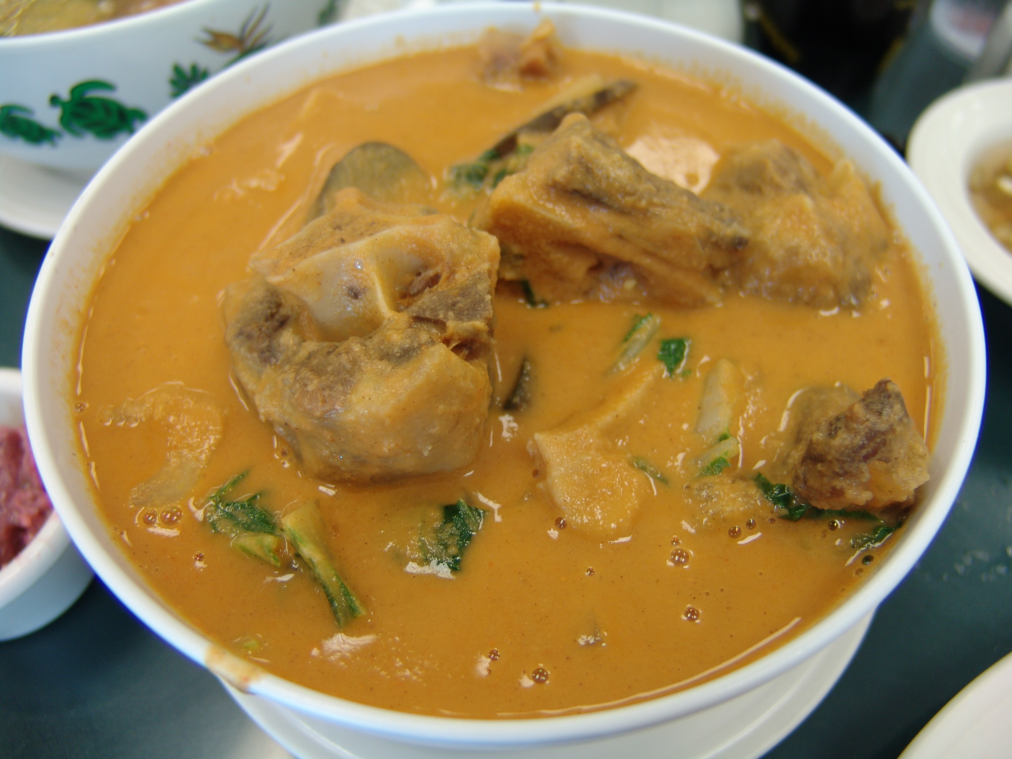 Kare-kare oxtail stew